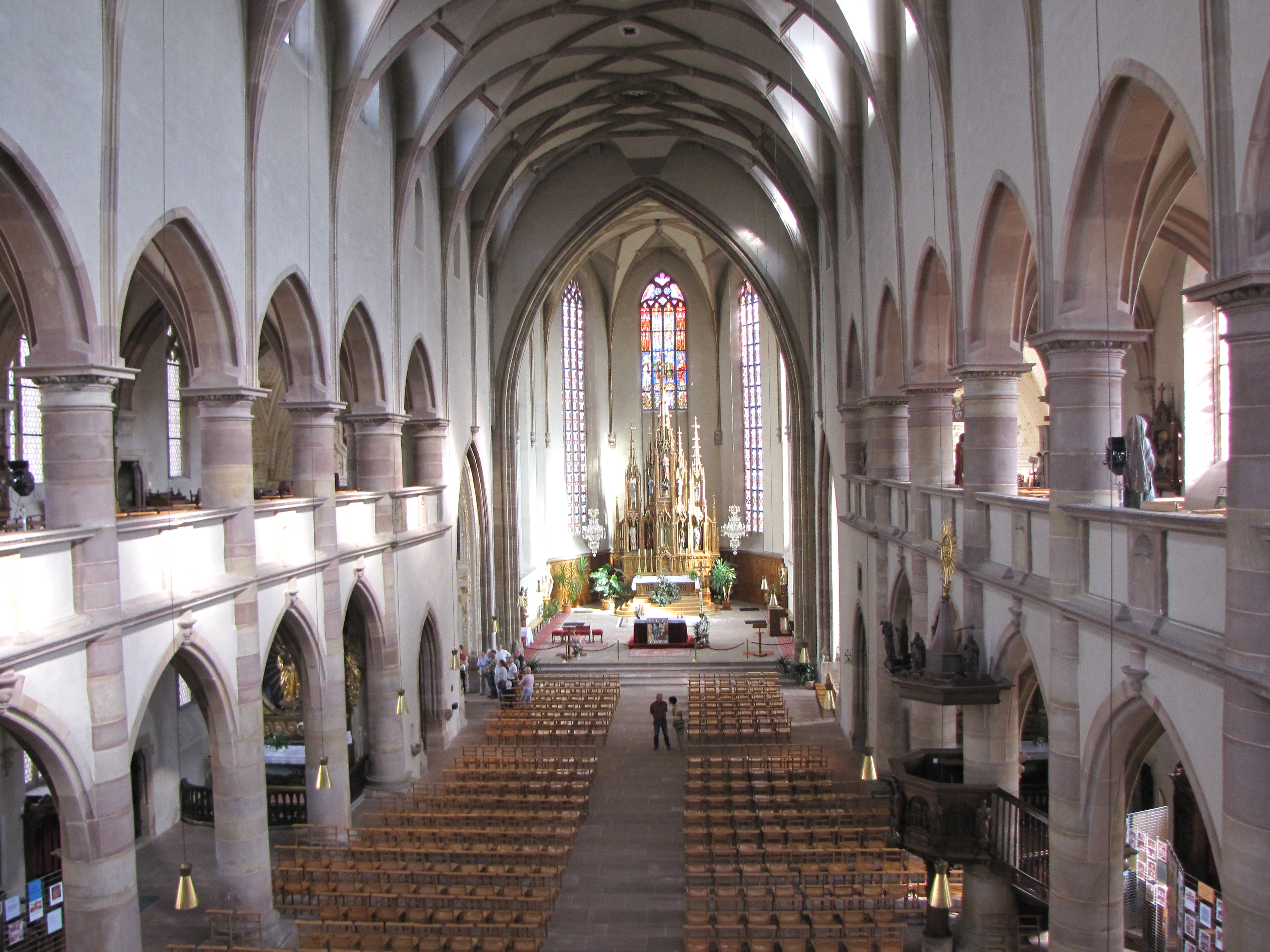 Eglise des Jésuites, Molsheim, Bas-Rhin, France